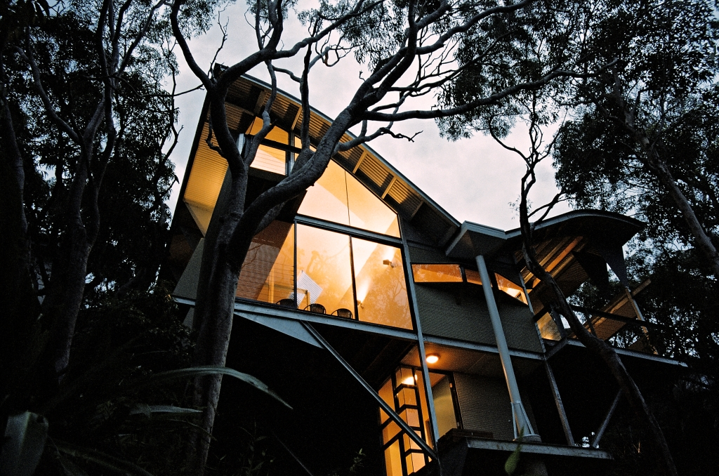 Killcare Beach Steel Tree House, New South Wales, Australia. Architect Feiko Bouman